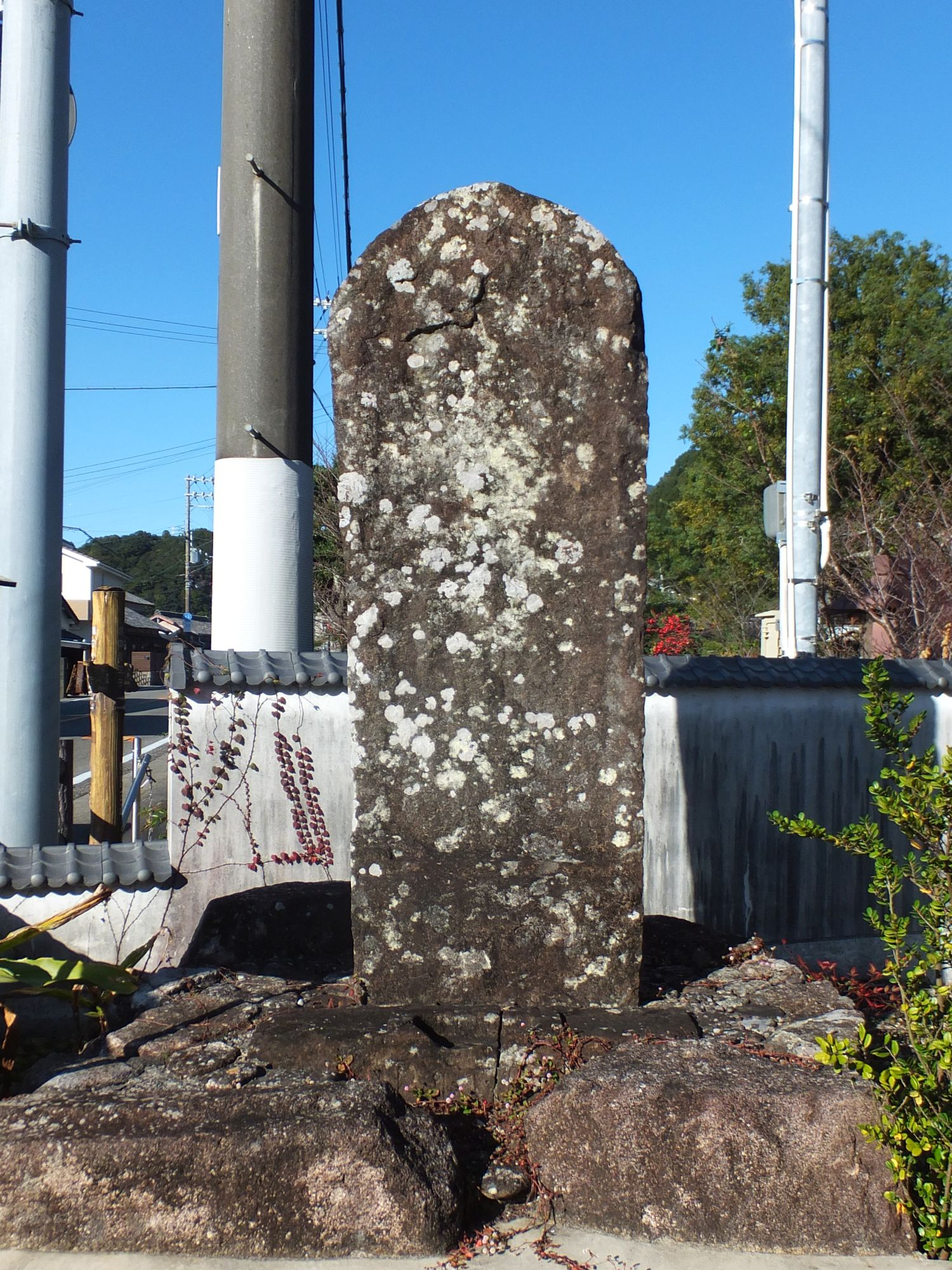 Furiwake-ishi stone of Kumano Kodō in Nachikatsuura-chō, Wakayama prefecture